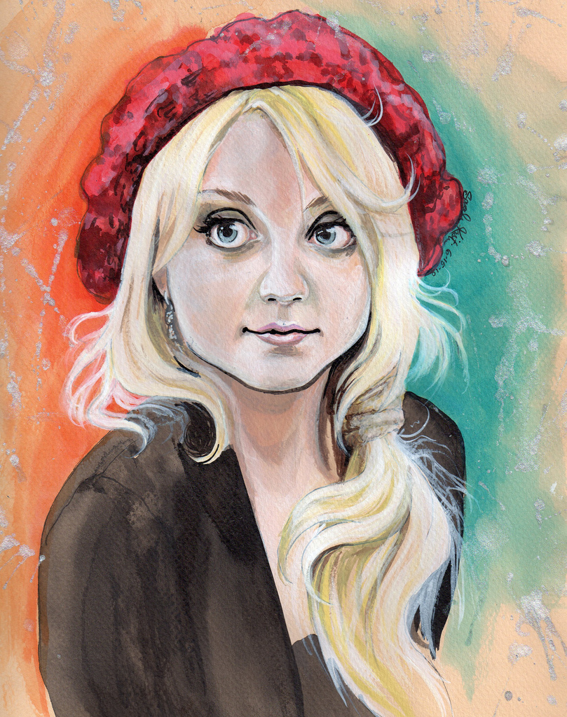 Acrylic inks on Pastel Paper [SOLD]